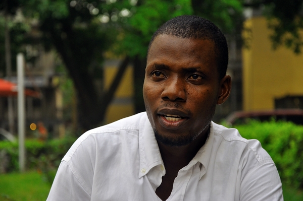 Portrait of Lekan Balogun by Aderemi Adegbite